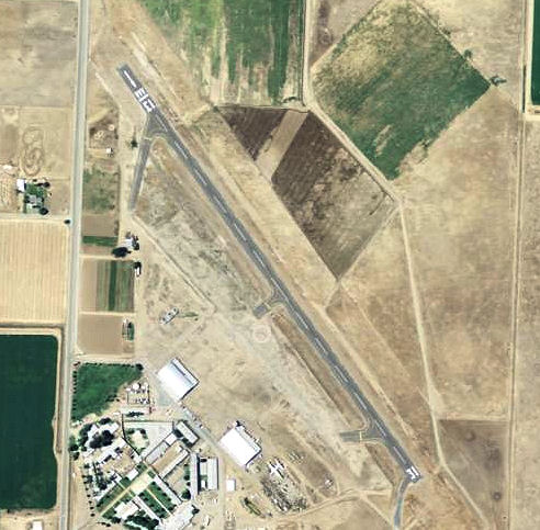 USGS digital orthophoto of Sequoia Field Airport in California